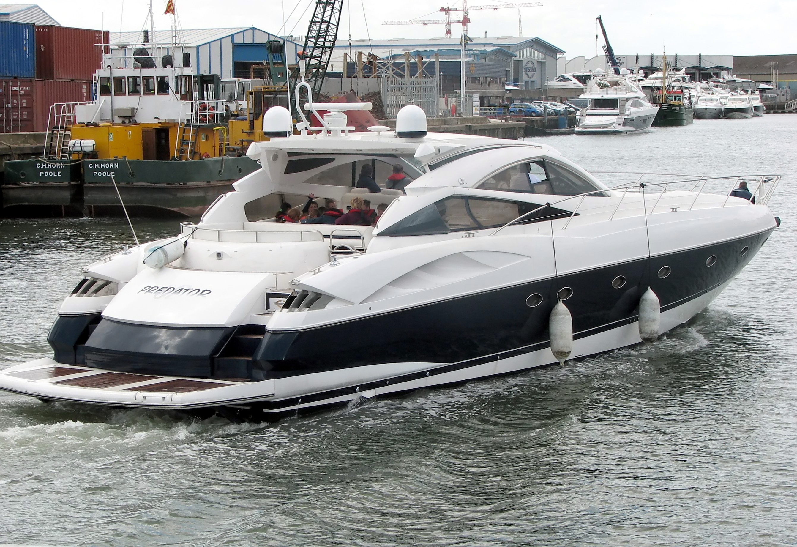 Sunseeker Predator motoryacht in Poole Harbour, Poole, Dorset, England. The factory can be seen in the background, above the row of cars. Photographed by Adrian Pingstone in June 2006 and placed in the public domain.